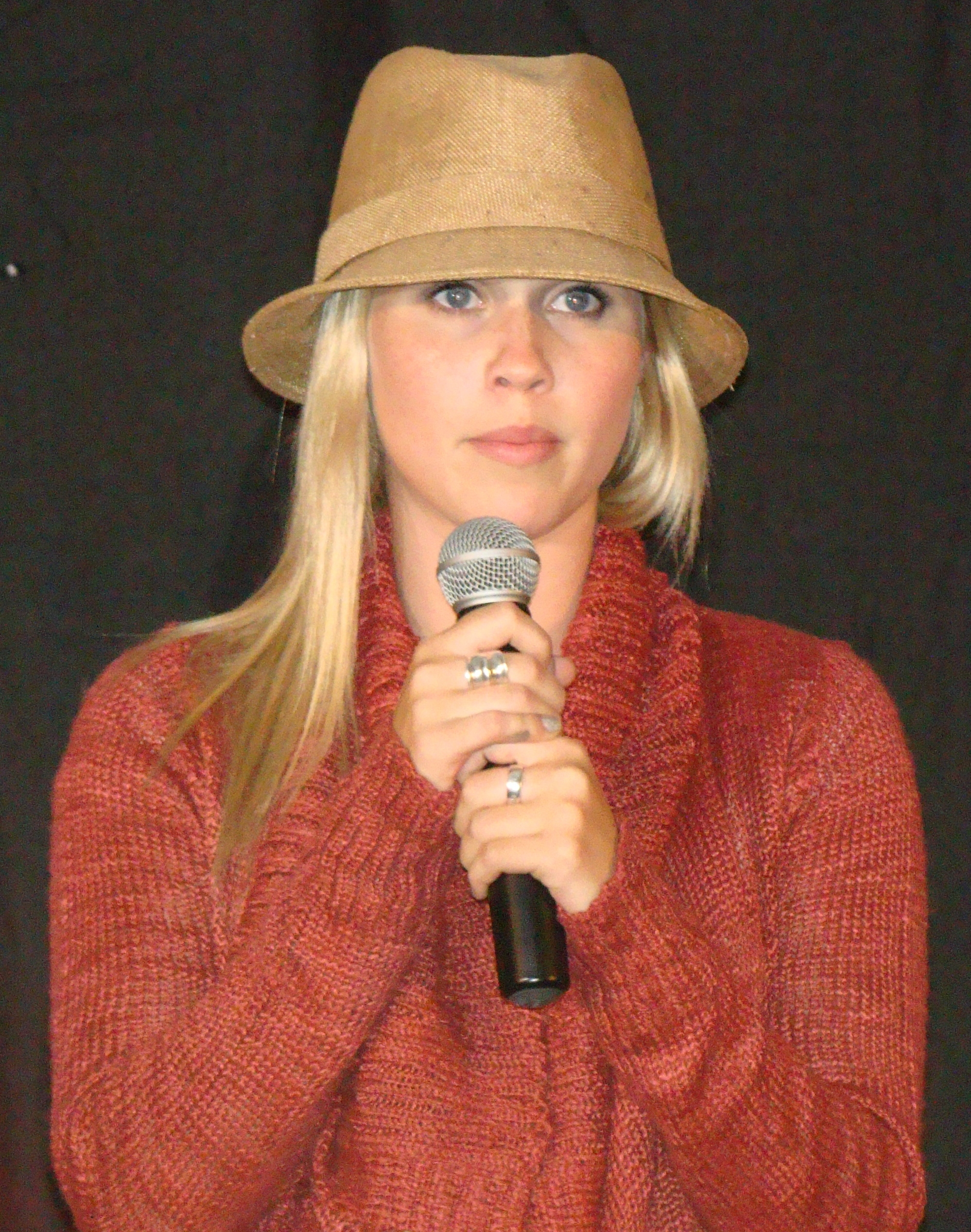 Interview with Claire Holt from The Vampire Diaries in June 2012.